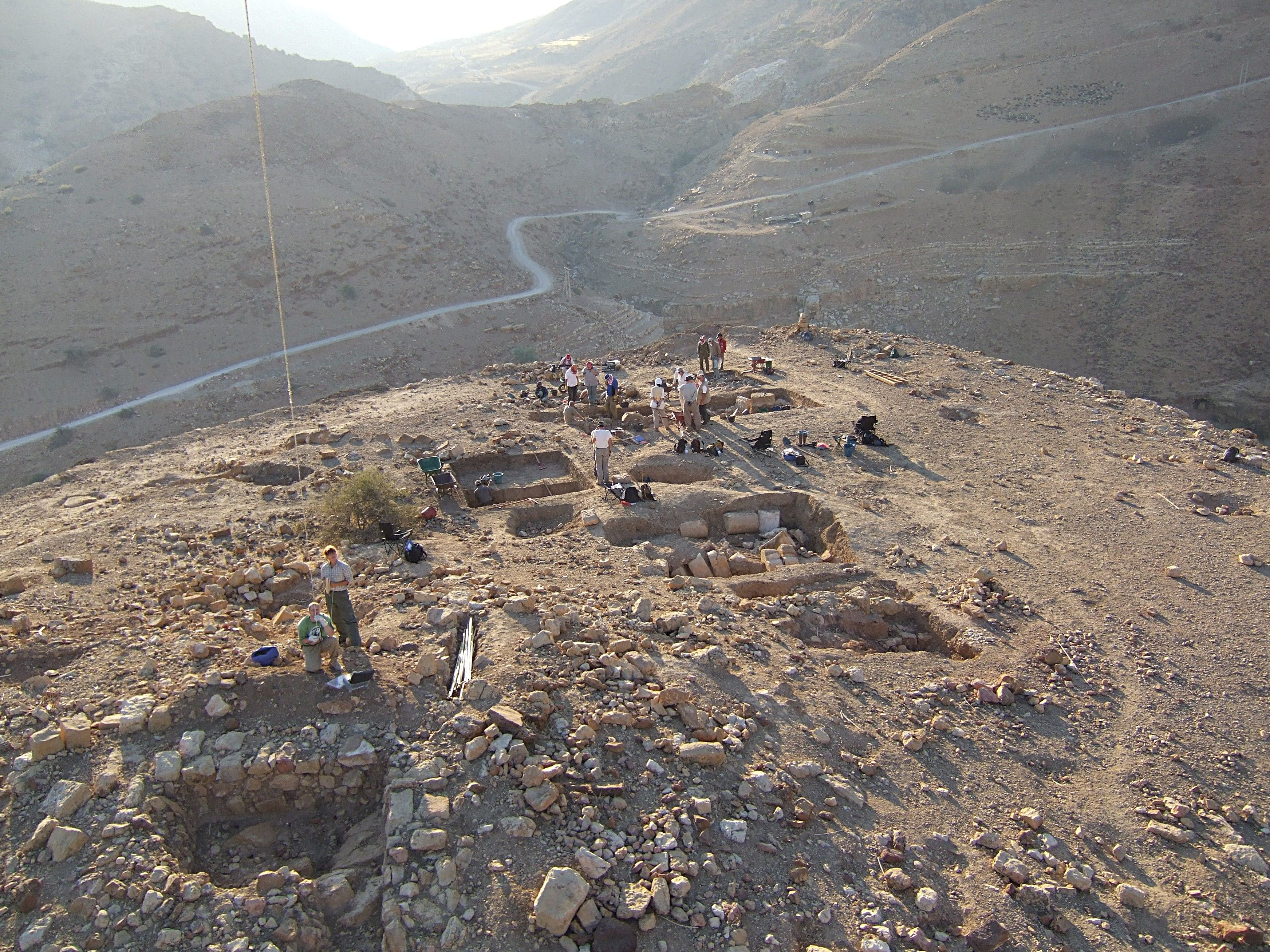 Tulul adh-Dhahab (Jordan): Archaeological excavation of the TU Dortmund led by Prof. Dr. Th. Pola on the uppermost plateau of the western hill, 2008 campaign. Beginning of the day's work at dawn. View to the East. Picture taken by kite aerial photography, note the kite line in the middle of the picture.